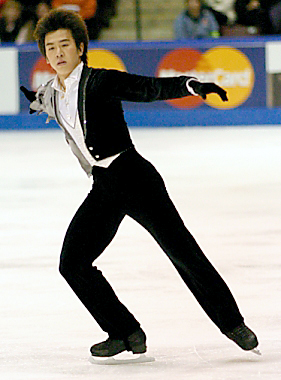 Takeshi Honda, a Japanese figure skater, competes in his long program at the 2003 Skate Canada competition in Mississauga, Ontario.